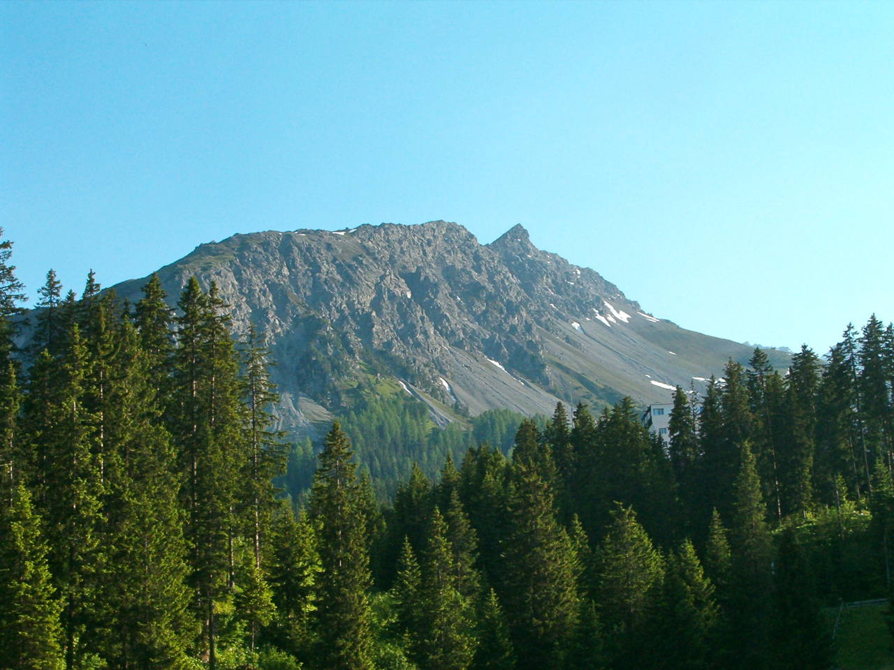 Schafrügg mountain, seen from Arosa